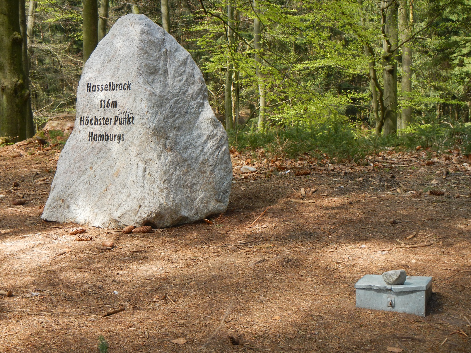 The highest point in the Federal State of Hamburg: Hasselbrack summit cross and geocache (front right). The stone was erected in 2013. The inscription reads: "Hasselbrack/116m/Höchster Punkt/Hamburgs" (Hasselbrack/116m/Highest point/in Hamburg".